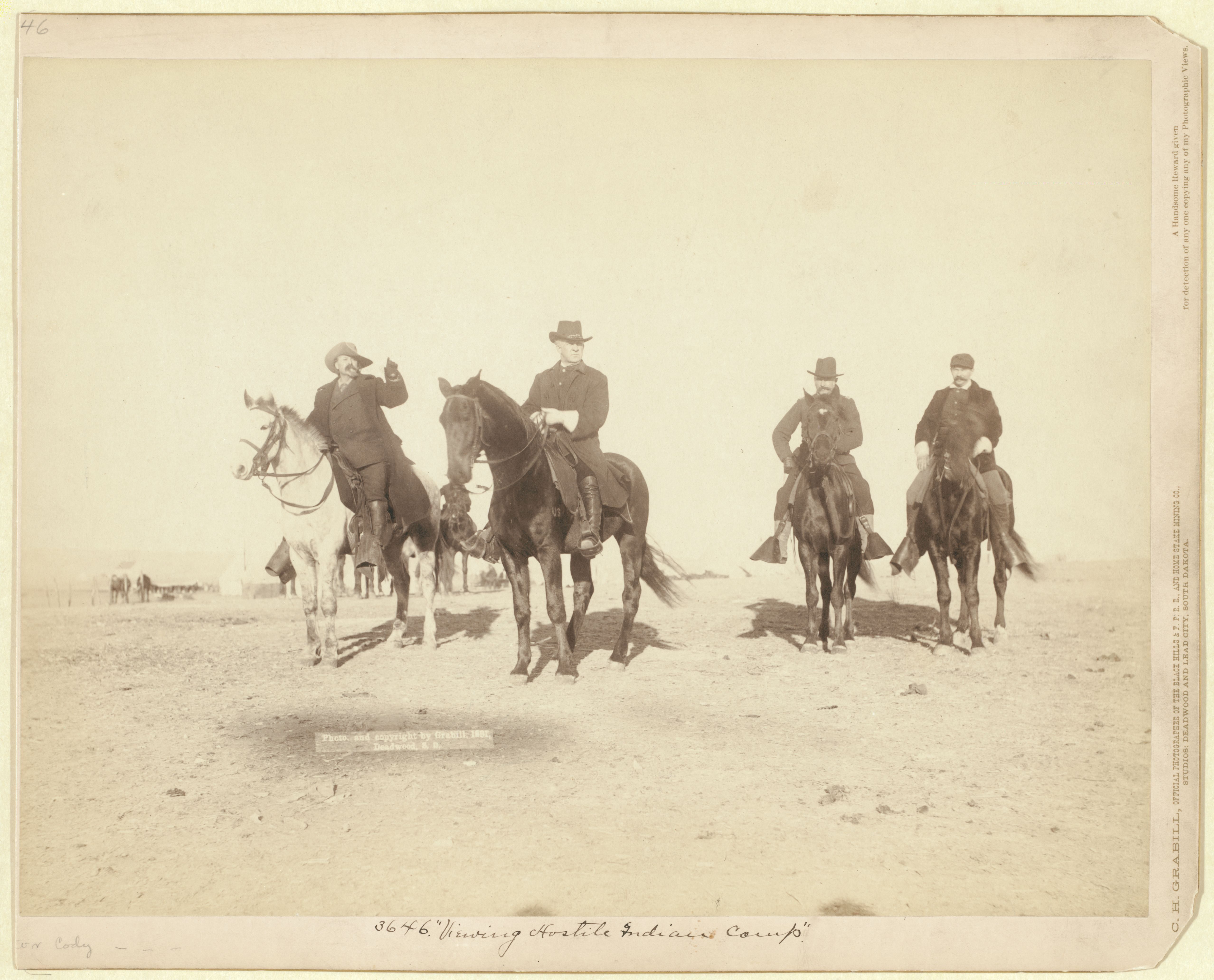 Original title Viewing Hostile Indian Camp Group portrait of Buffalo Bill, General Miles, Captain Frank Baldwin, and Captain Marion P. Maus, facing front, all four on horseback.